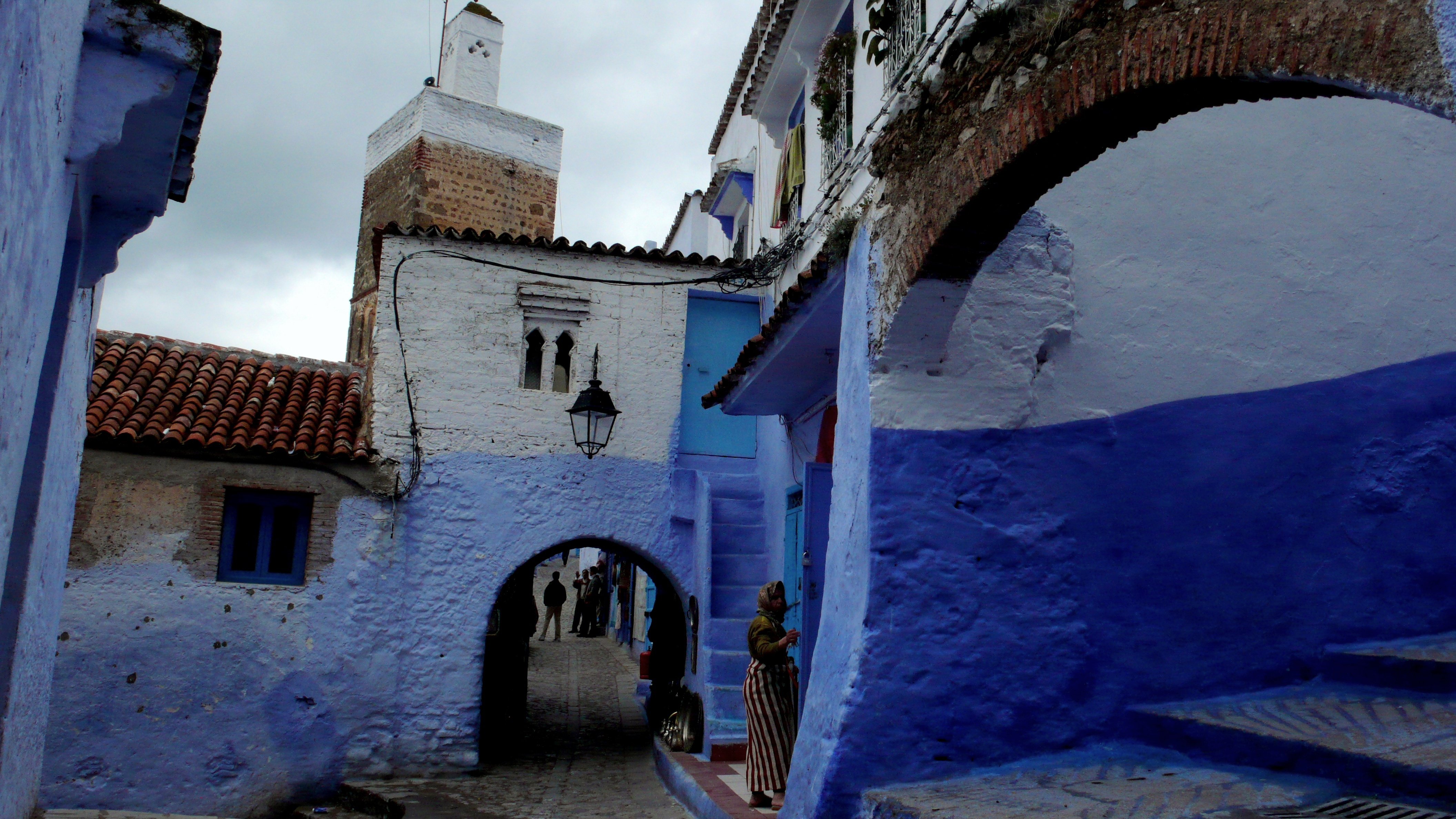 Typically blue-rinsed houses Chefchaouen.